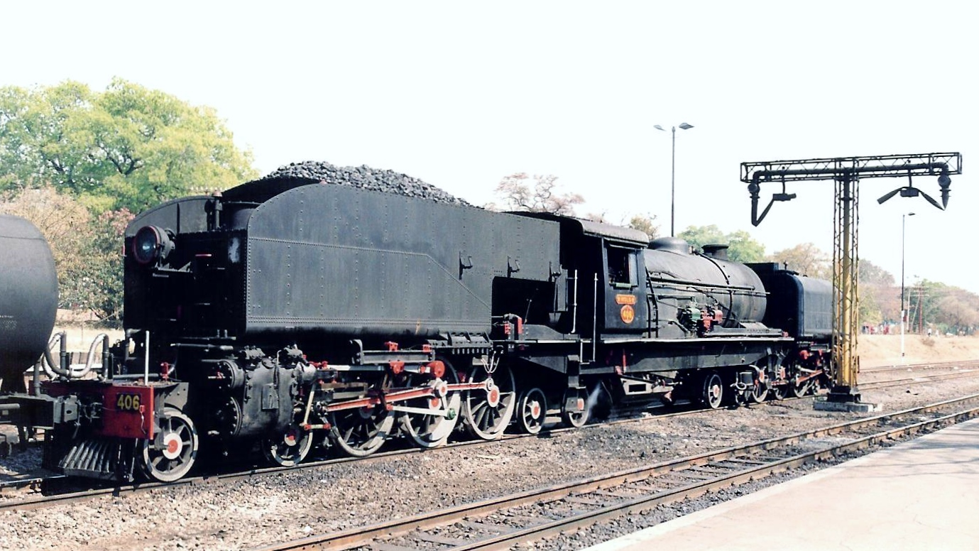 NRZ 15th class Garratt No 406 Ikolo (Hornbill) at Victoria Falls, Zimbabwe.